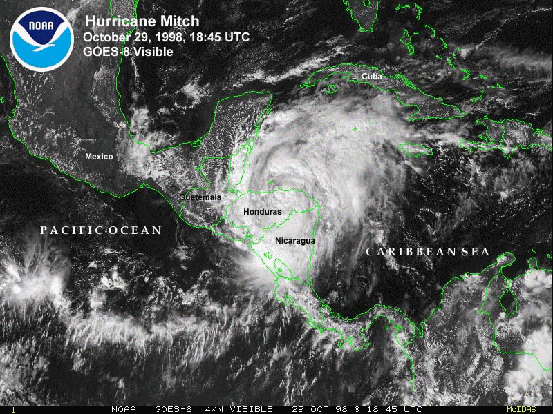 Hurricane Mitch after making landfall in Honduras, on October 29, 1998.